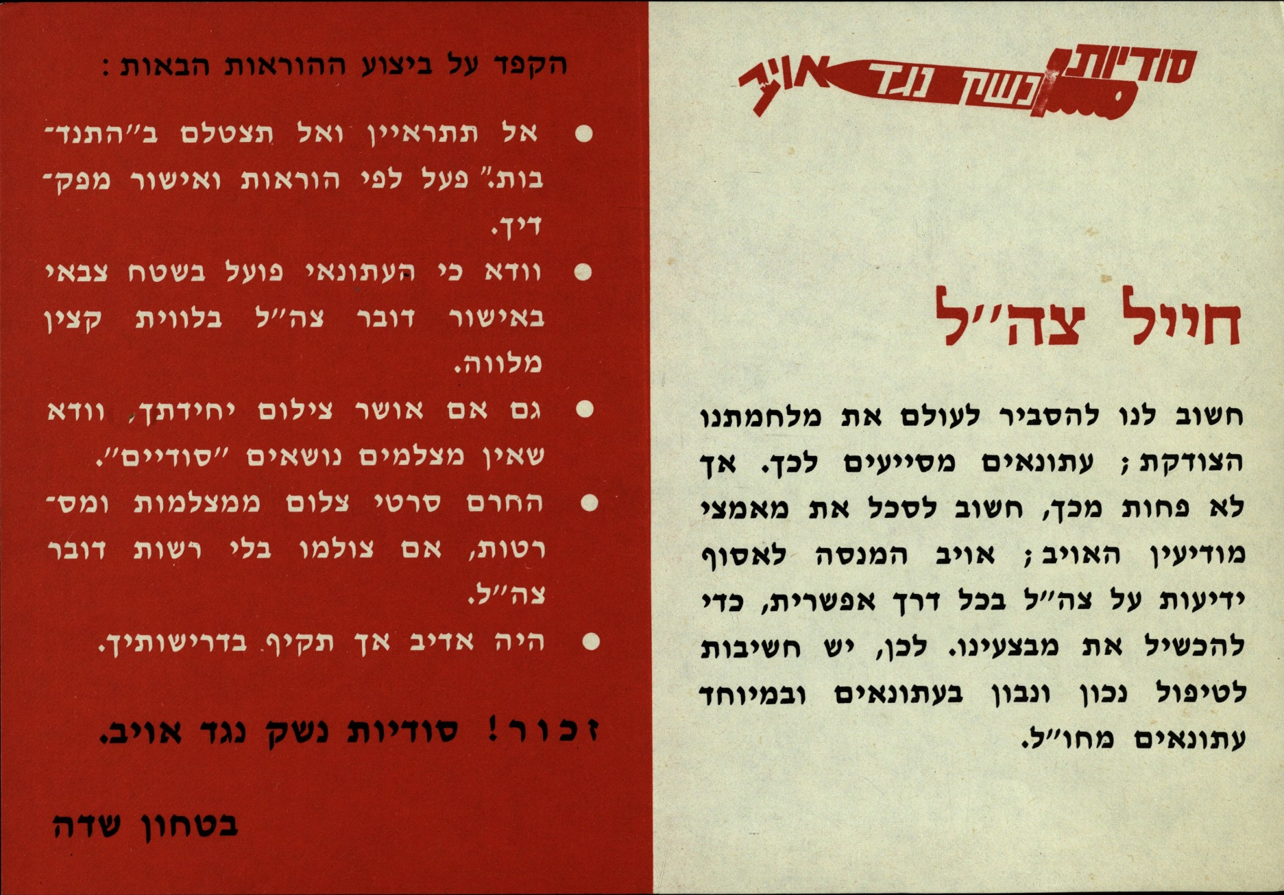 IDF Post Card "Keep a Secret- Save a Life!"